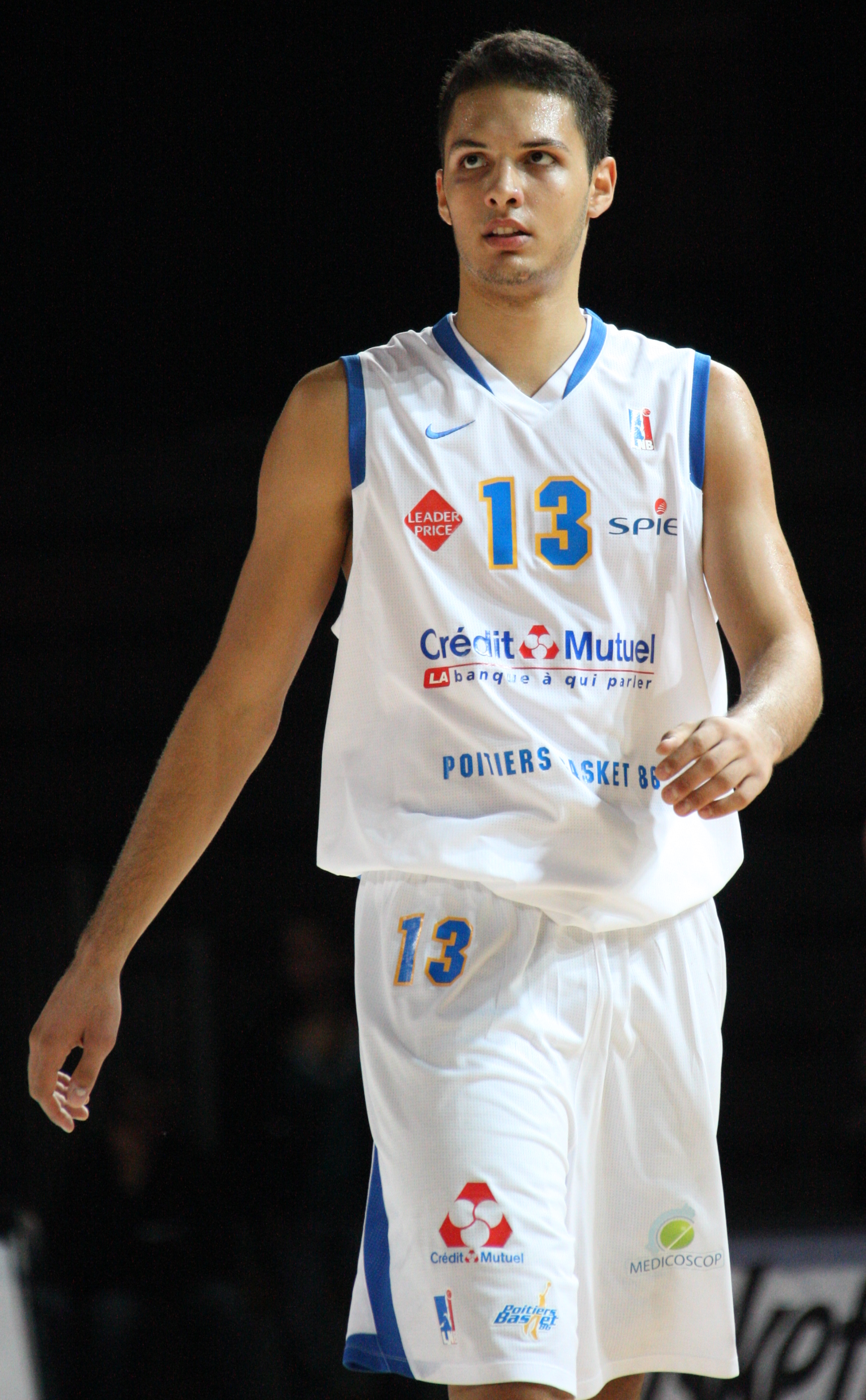 French basketball player Evan Fournier